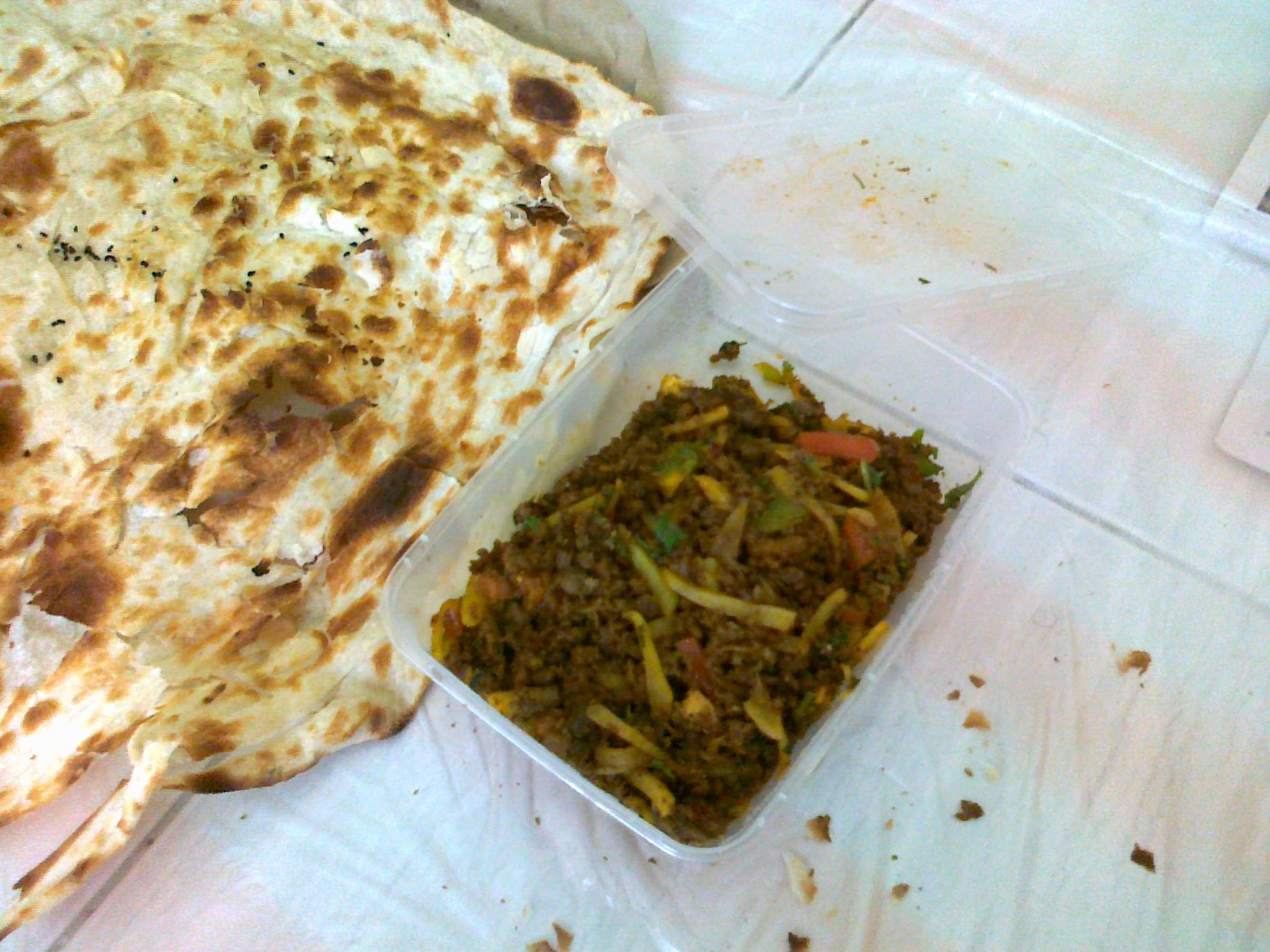 Minced meat with vegetables cooked, and Yemeni bread.